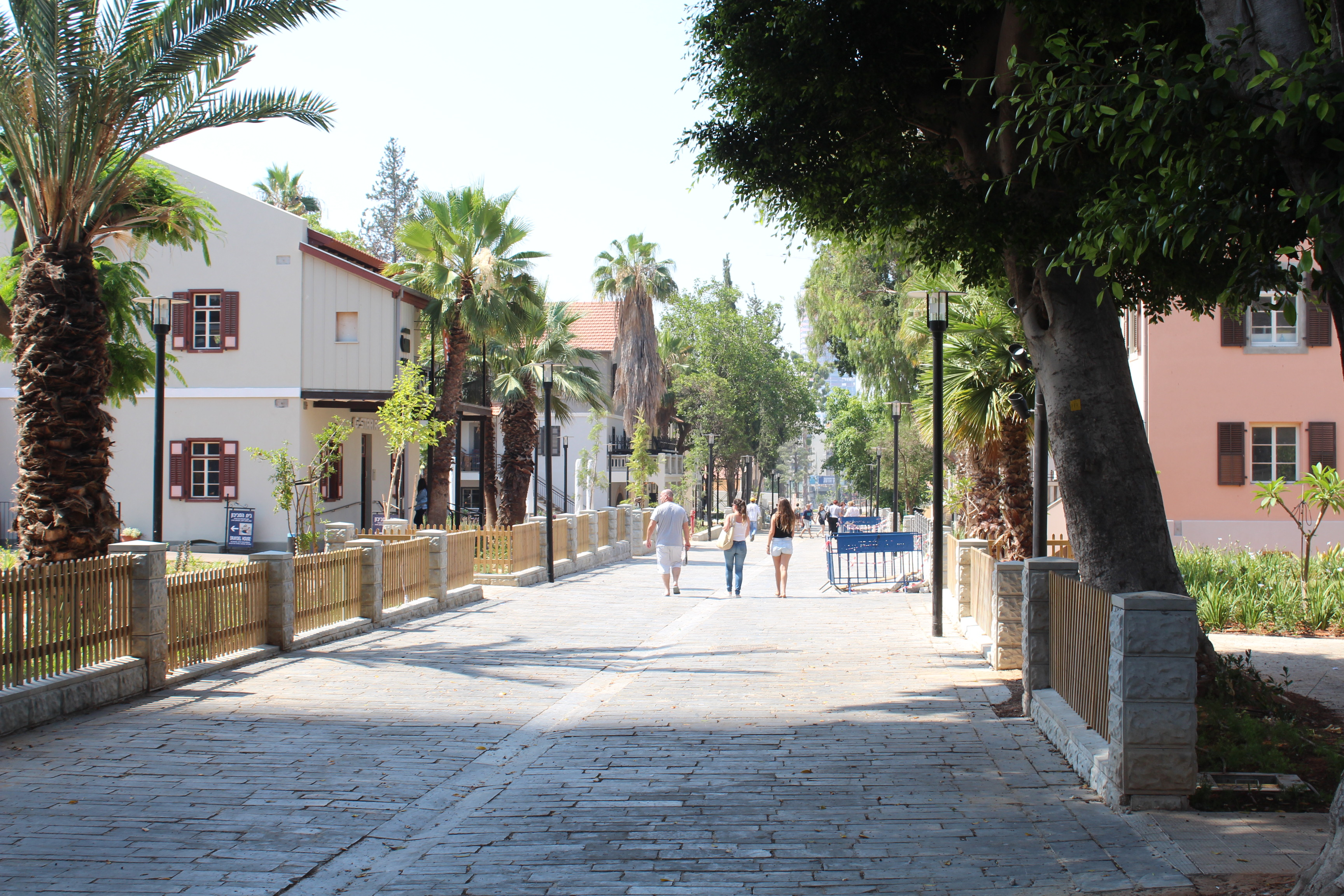 Sarona was a German Templer colony northeast of the city of Jaffa. It was one of the earliest modern villages established in Palestine. Today it is a neighborhood of Tel Aviv, Israel. This image was taken as part of the Elef Millim project trip to Sarona, in Tel Aviv Israel which was held on Friday,27th June 2014. To view all images uploaded as part of the Elef Millim Project